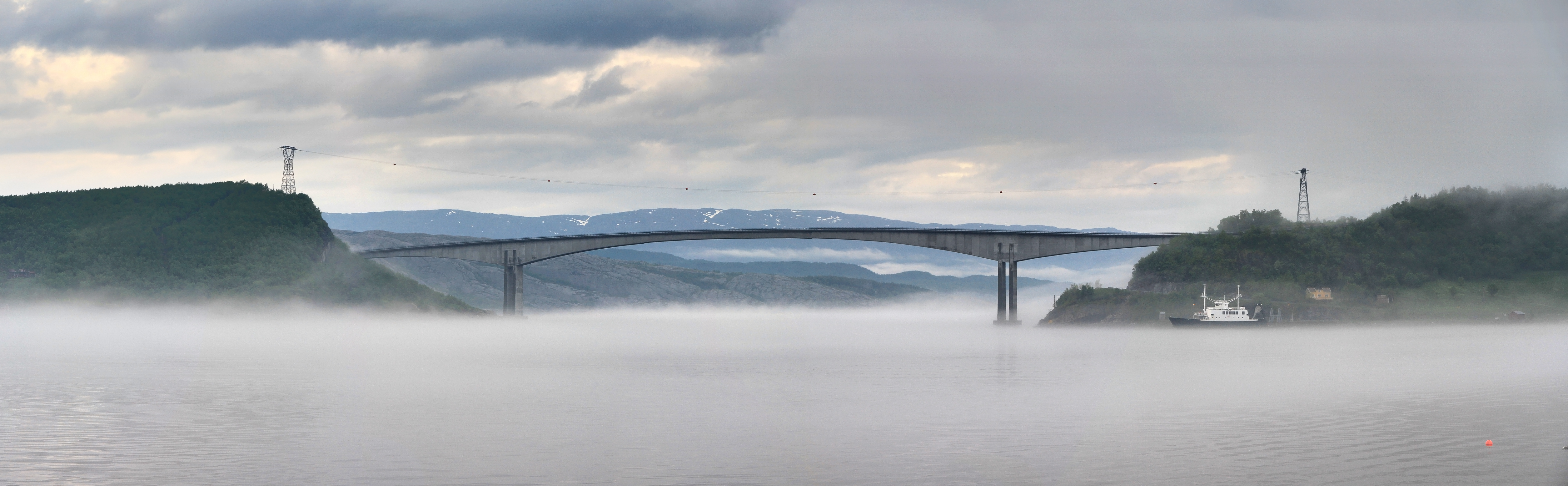 A view to foggy Dagsvikbukta which is part of Sundet (Vefsnfjorden) in Leirfjord, Nordland, Norway. Fv220 road crosses the water to Alsta by the Sundøy Bridge on the right. Photographed in 2011 June.